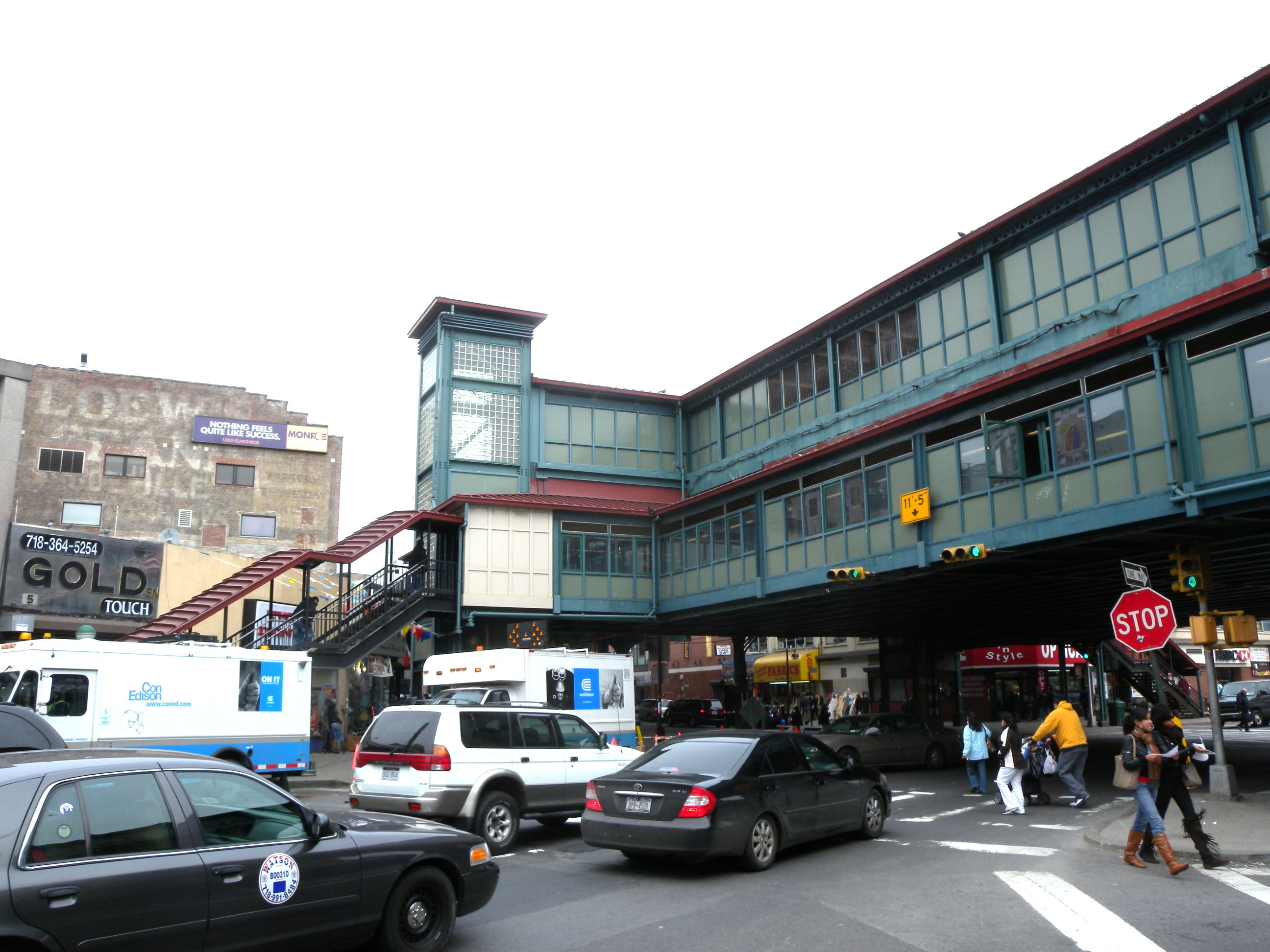 Lookng northeast across West Fordham Road at IRT station on a cloudy midday. EXIF location was accidentally set a quarter mile too far east.